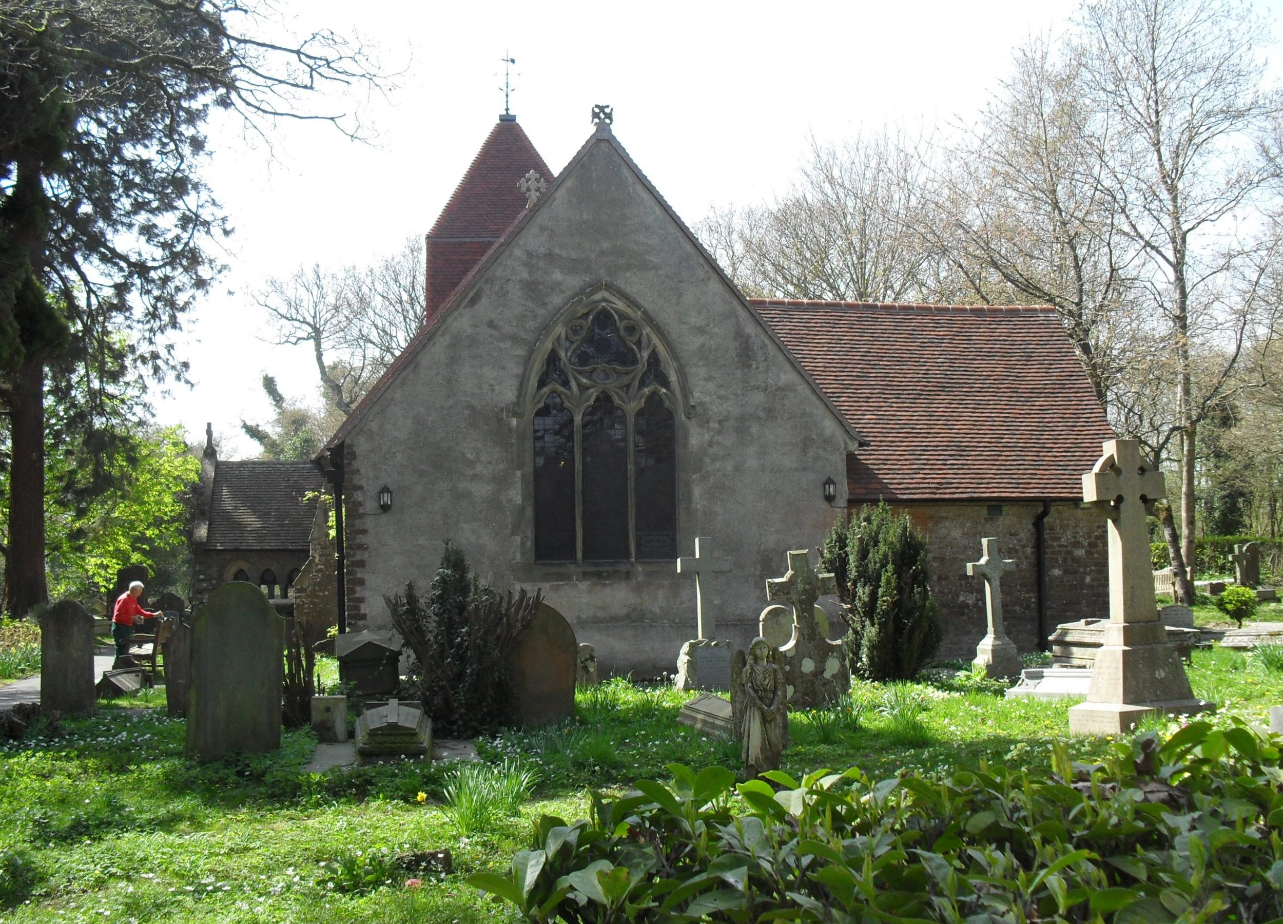 East end of St Leonard's Church (Church-in-the-Wood), Church in the Wood Lane, Hollington, Hastings, East Sussex, England. This is a restored 13th-century Anglican church in the middle of a wood and nature reserve in the Hollington area of Hastings. Listed at Grade II by English Heritage (Heritage Gateway Code 293741)